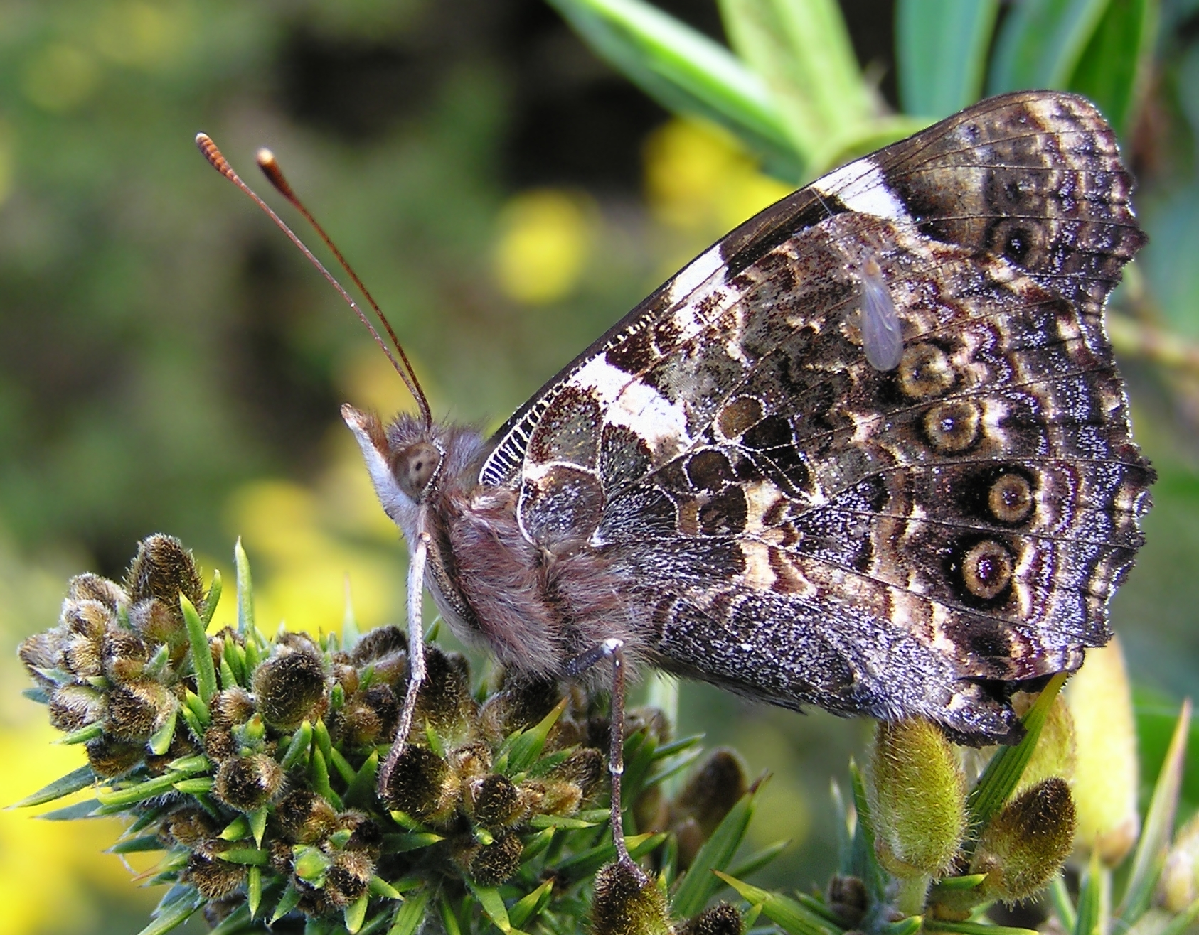 NZ Red Admiral Butterfly wing underside detail, mid winter, on gorse bush (Ulex europaeus) branch with flower buds, in Wellington, New Zealand. To misquote: "So, naturalists observe, a fly - Hath smaller flys that on him prey; And these have smaller still to bite 'em; And so proceed ad infinitum” Māori: Kahukura